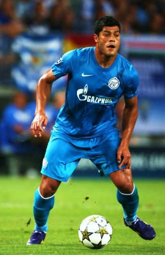 Hulk (footballer)